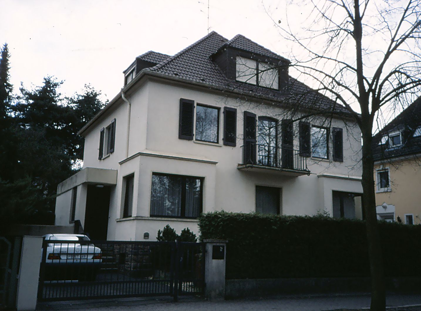 Elvis Presley's house in Goethestrasse 14, Bad Nauheim, Germany, in 1959. Picture from 2 April 2006.